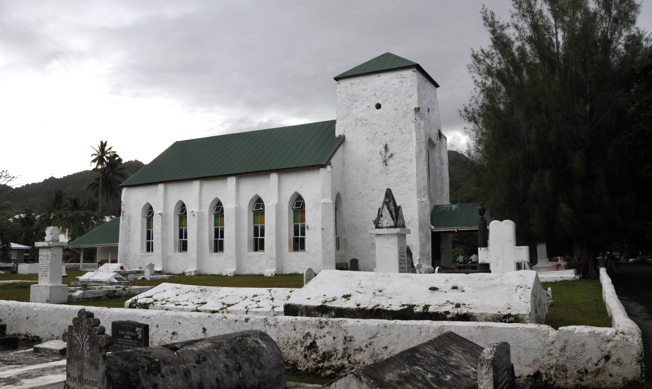 CICC CHURCH IN AVARUA BUILT IN 1853 AND FASHIONED FROM CORAL AND LIMESTONE. AVARUA IS THE CAPITAL ON RAROTONGA. CICC STANDS FOR COOK ISLANDS CHRISTIAN CHURCH